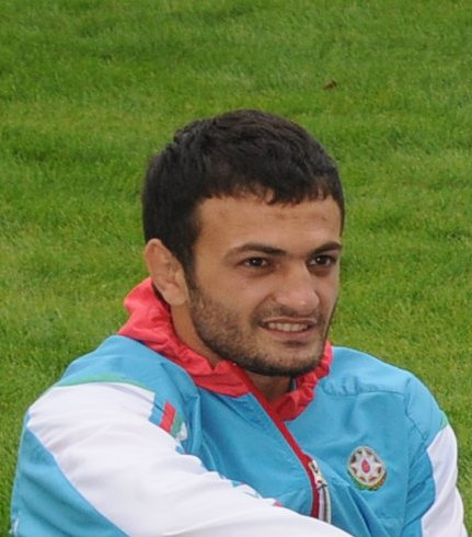 Bayram Mustafayev at the 2012 Summer Paralympics